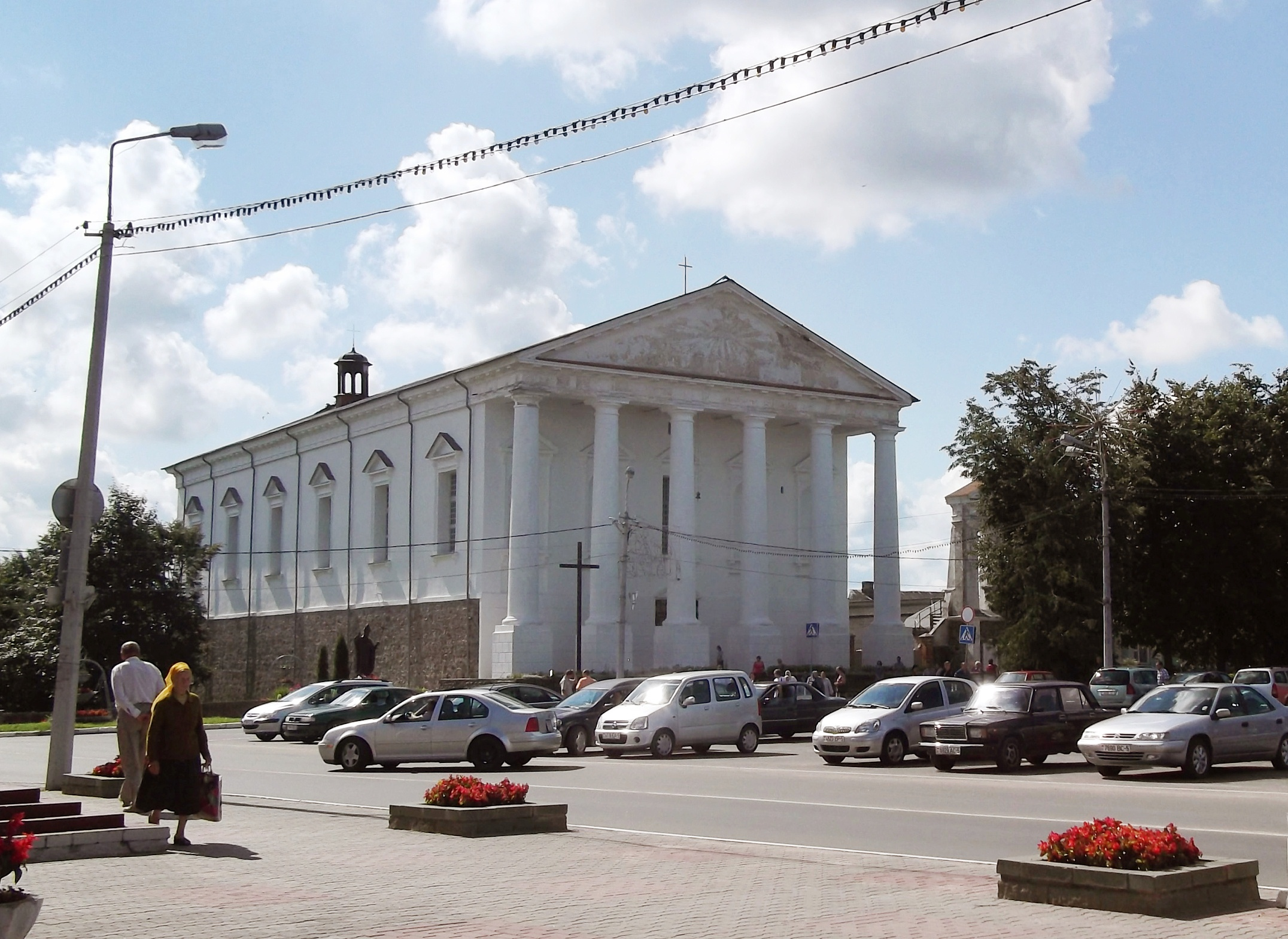 St. Joseph Roman Catholic Church in Valozhyn, Belarus